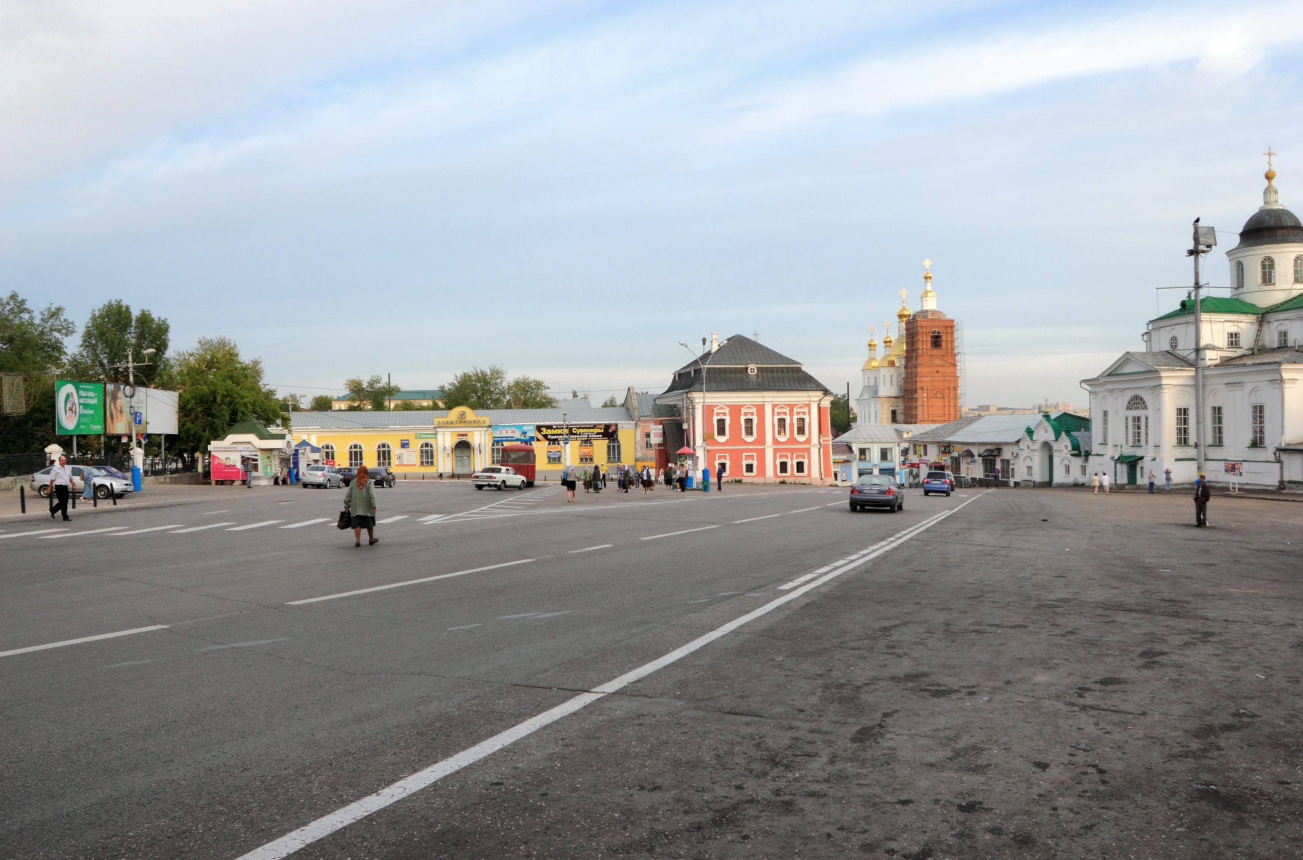 Arzamas. Cathedral Square